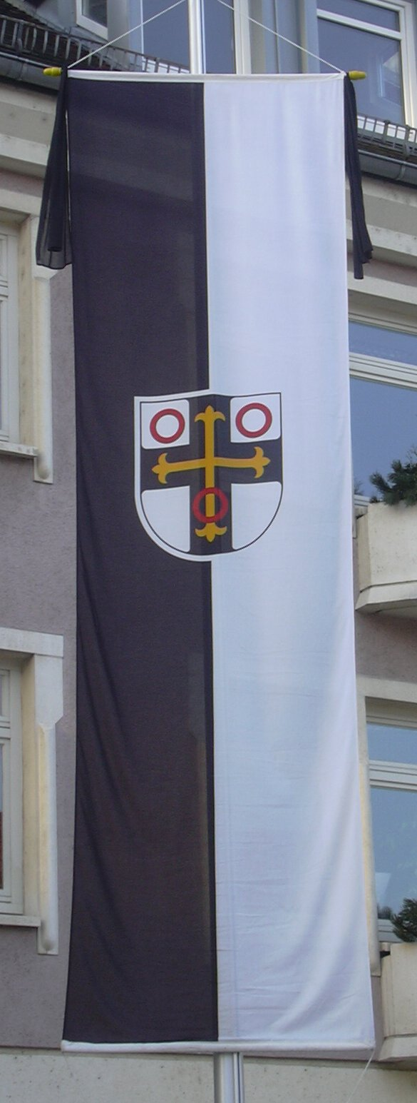 flag of the city Neckarsulm, Germany (on the national day of mourning)